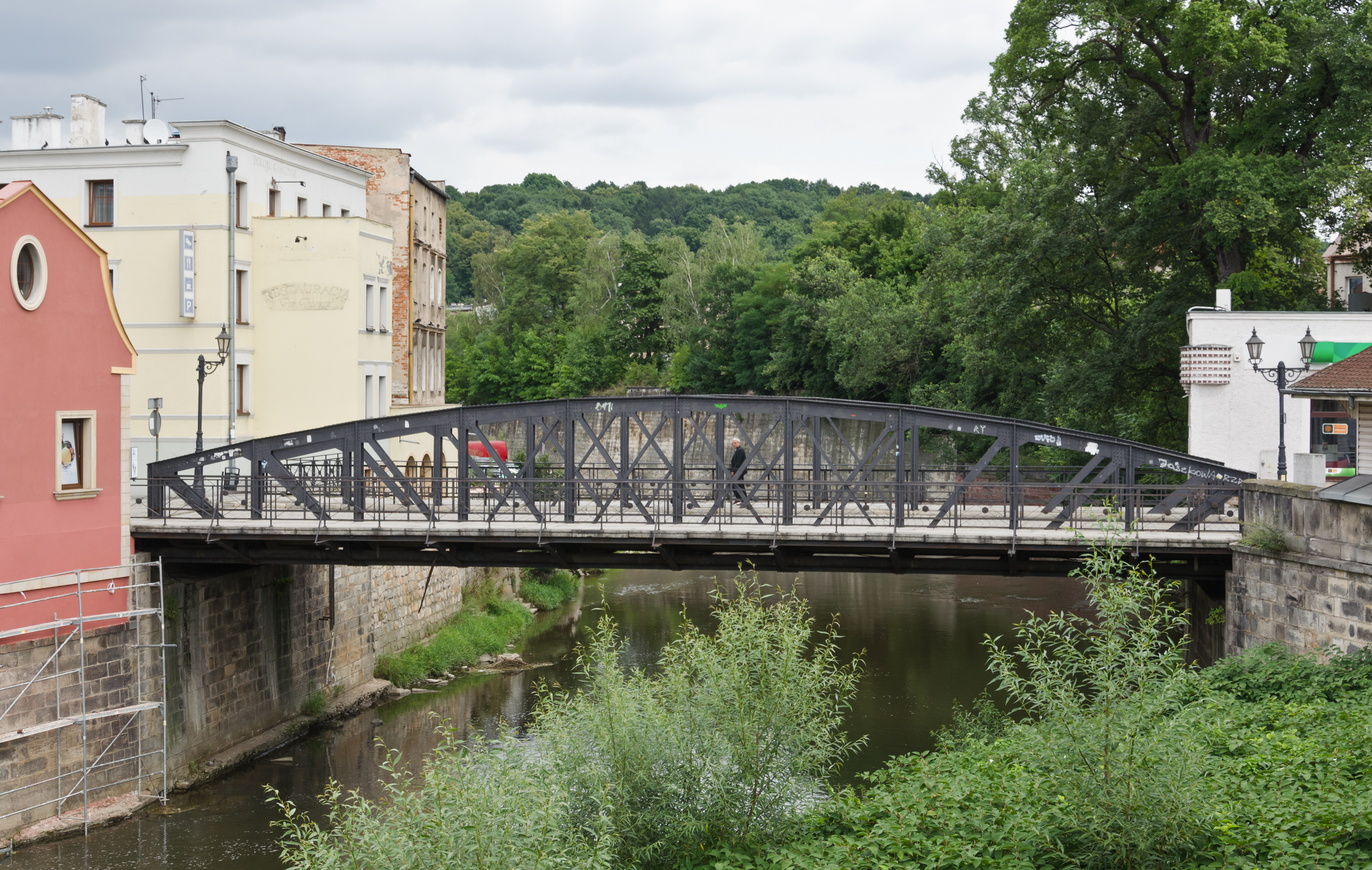 Iron bridge in Kłodzko